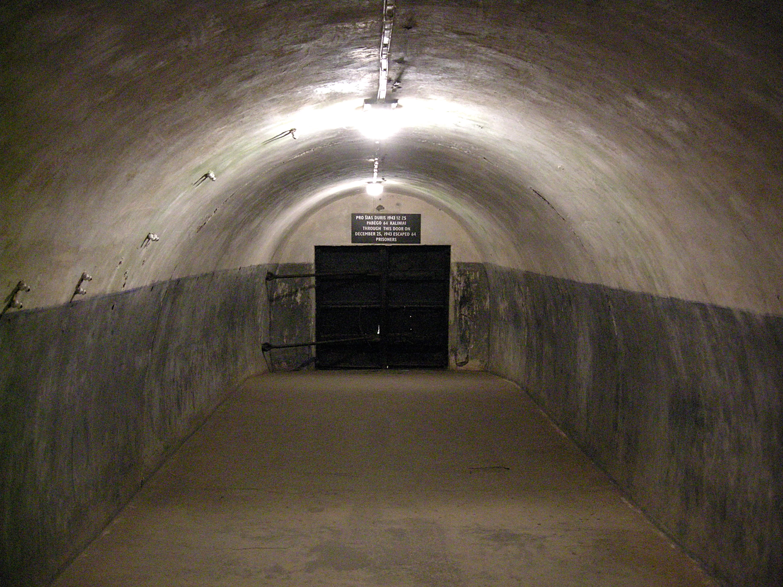 Catacombs of the Ninth Fort, part of the Kaunas Fortress. Through this door on December 25, 1943 escaped 64 prisoners.